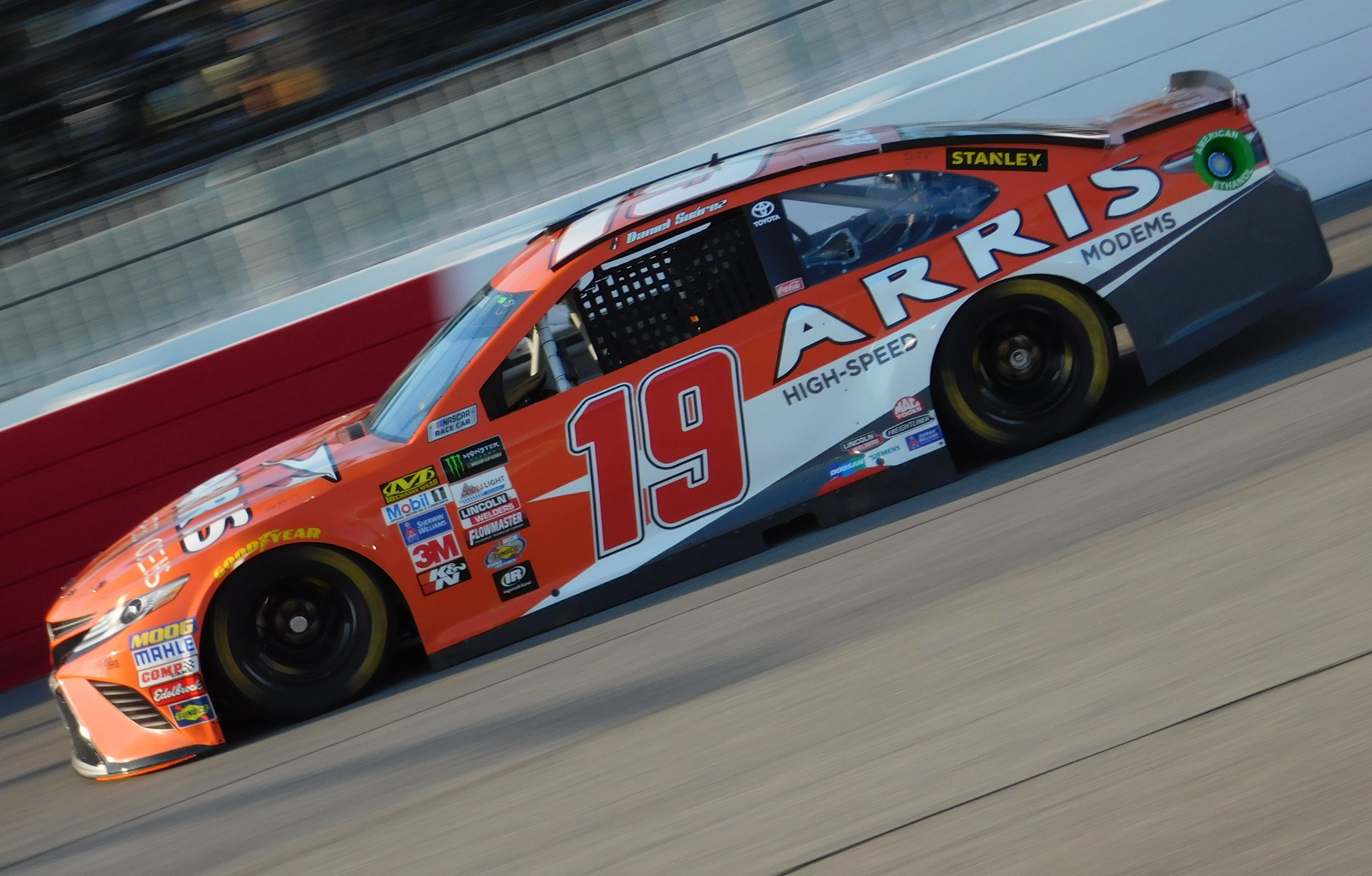 Daniel Suarez's No. 19 Arris Toyota at Richmond Raceway in 2017